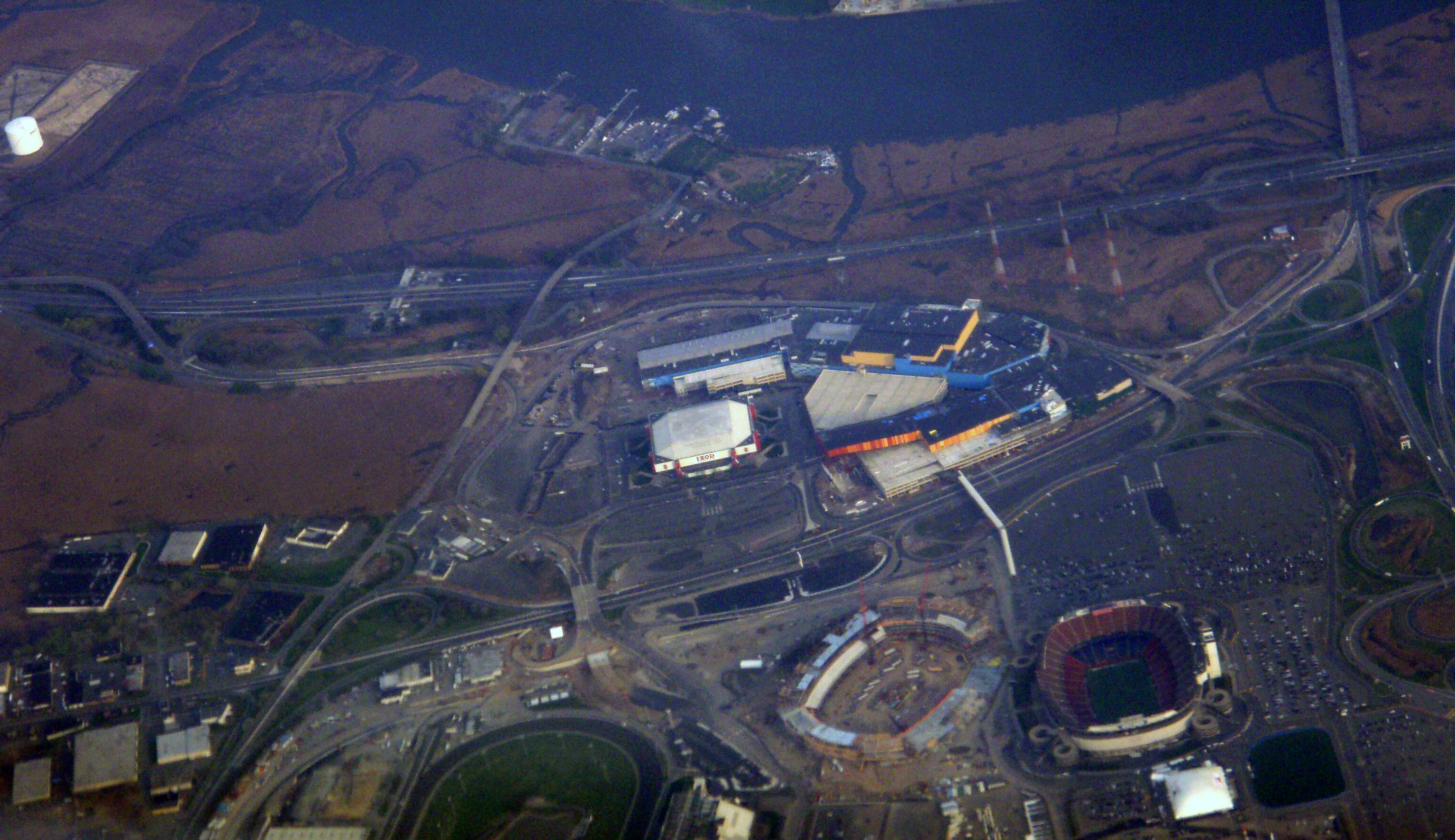 Meadowlands Xanadu, New Jersey, as seen from an airplane on April 19, 2008.